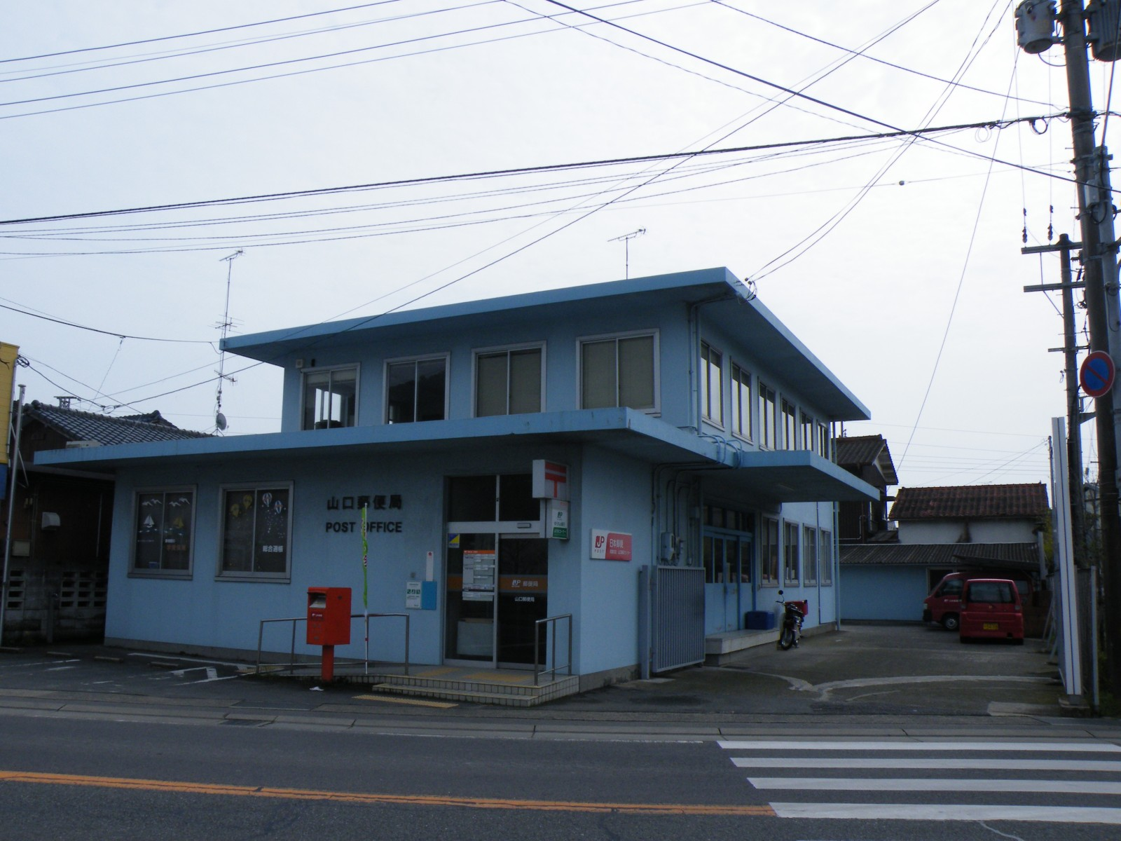 Yamaguchi Post Office (Kouhoku Town,Saga)